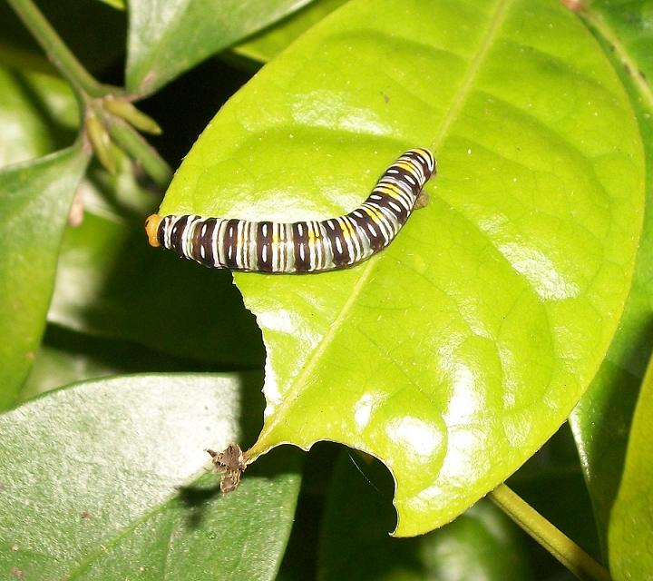 Red-tab Policeman larva feeding on Acridocarpus natalitius at Hawaan Forest, KwaZulu-Natal, South Africa. (Buxus natalensis in the background).